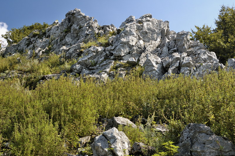 Taricové skaly (620 m)